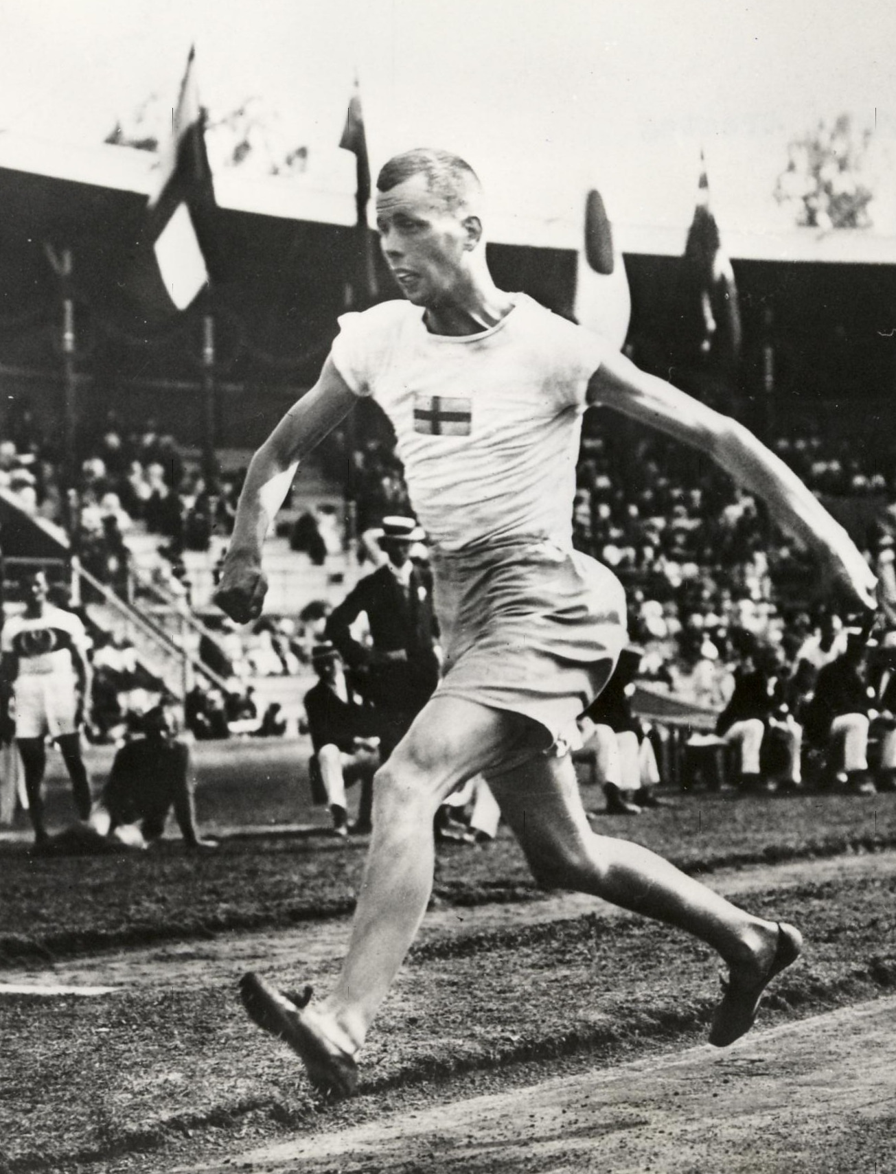 Gustaf Lindblom during the triple jump competition at the 1912 Summer Olympics